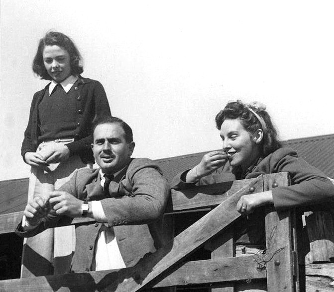 Wagga, New South Wales, 1941. Left to right: Unknown; Flying Officer William Ellis (Bill) Newton; Betty Rose (Mrs Ian Frederick Rose).